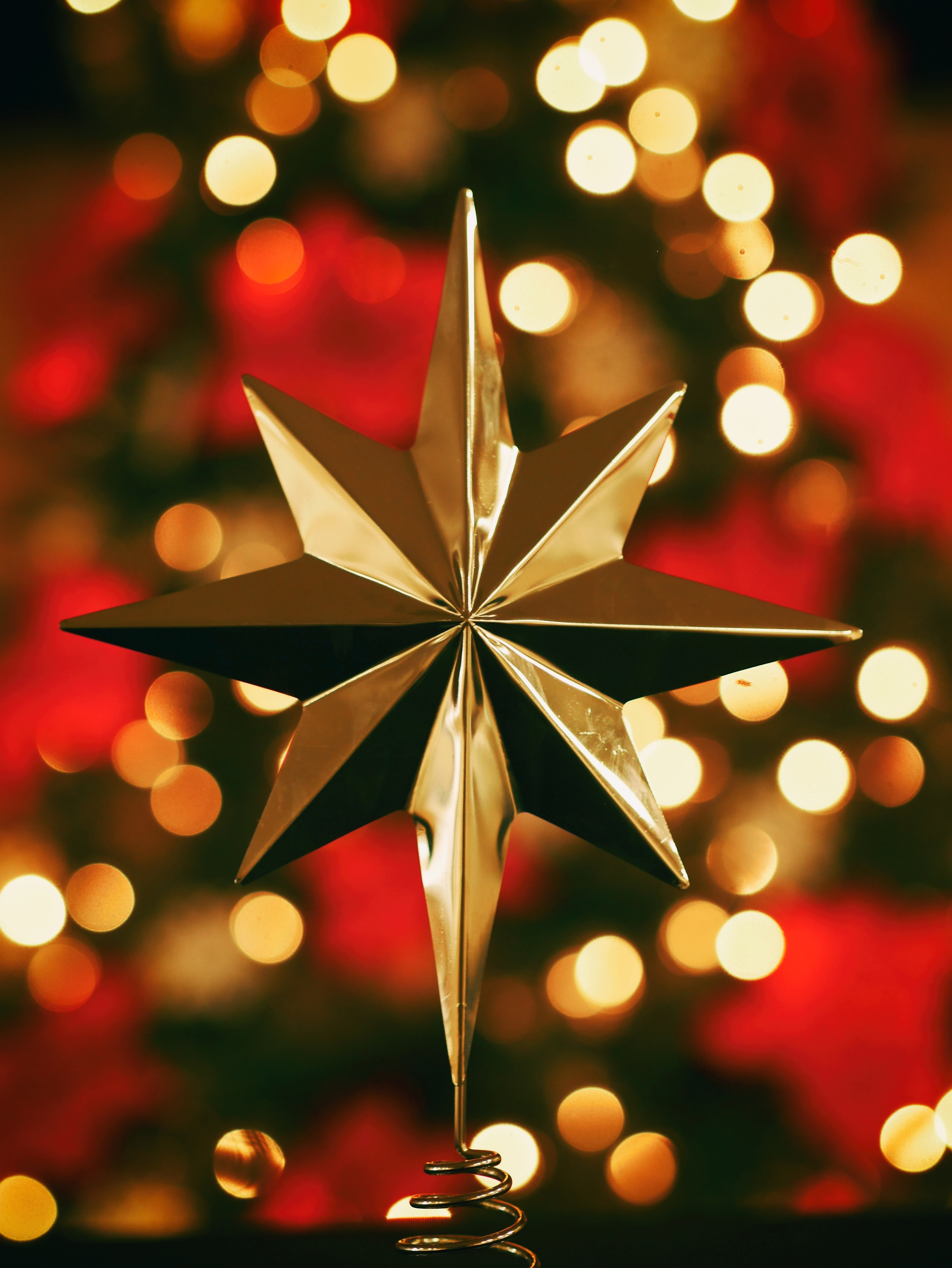 Aaron Burden 2016-12-02